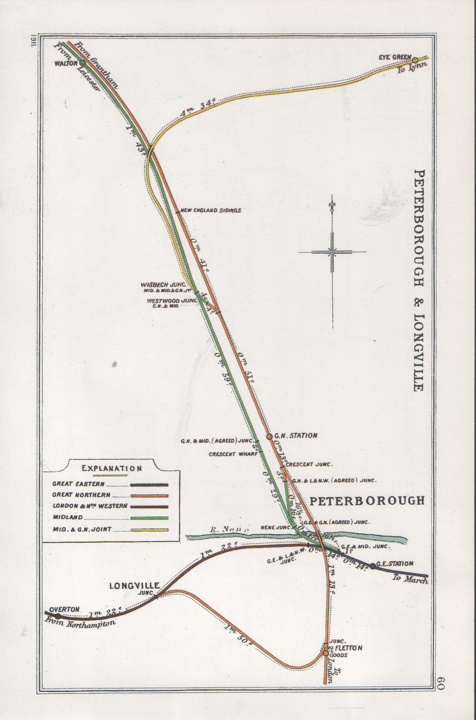 Pre Grouping railway junction around Peterborough & Longville